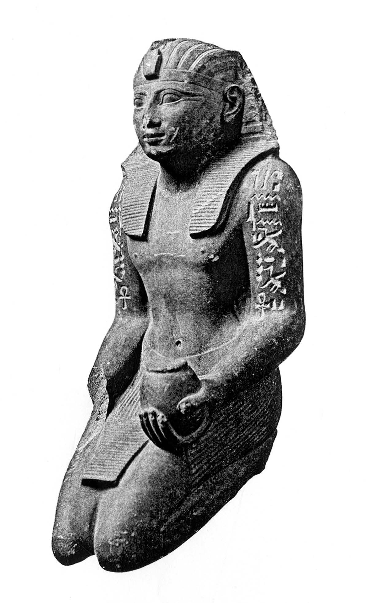 Statue of the High Priest of Amun Pinedjem I as a pharaoh, kneeling and offering jars. Basalt, from Karnak, great temple cachette, 21st dynasty, Third intermediate period. Cairo, Egyptian Museum CG 42191 (JE 37419).